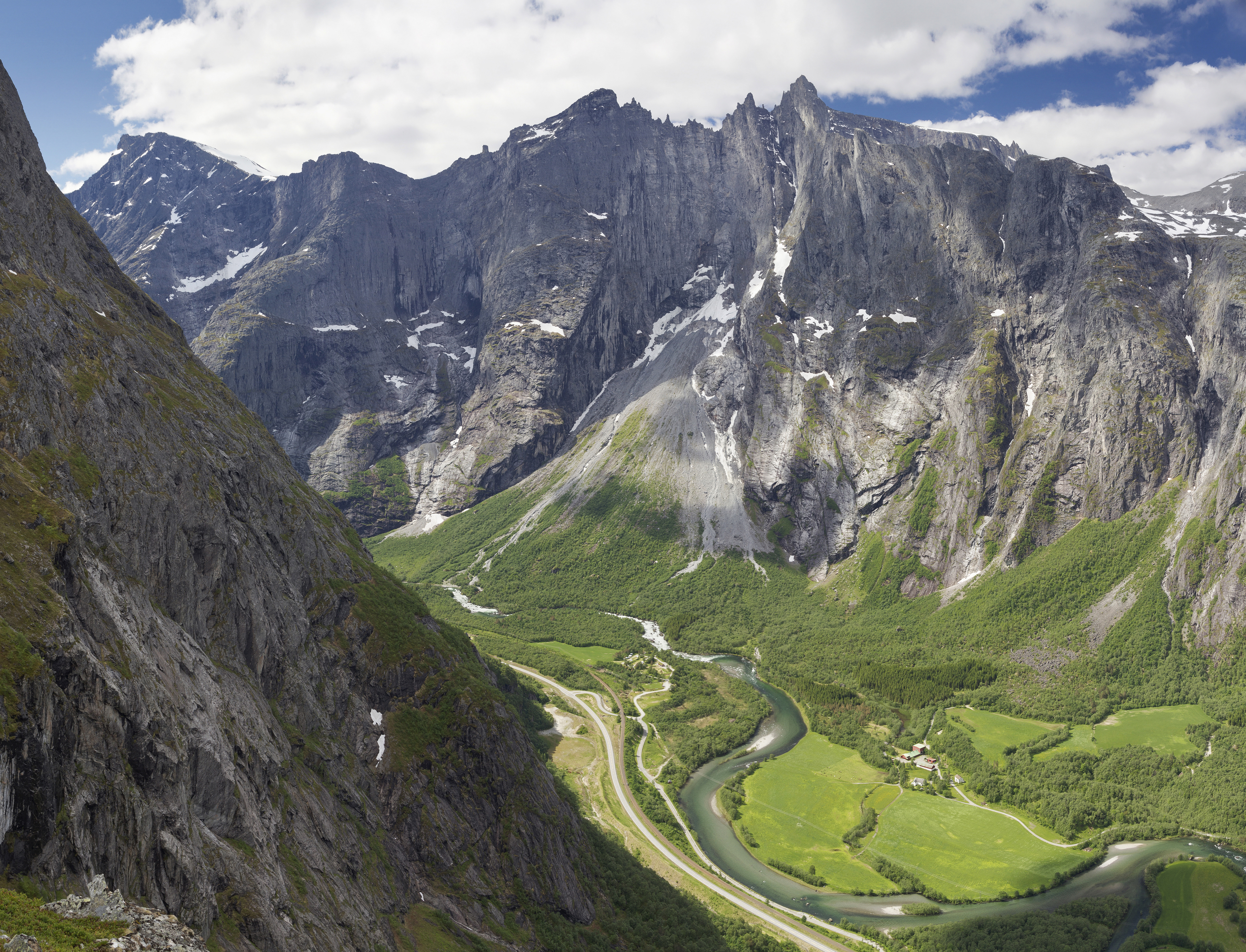 A view to Trolltindane mountain massif and Romsdalen valley from Litlefjellet in 2013 June. Trollveggen, the tallest vertical rock face in Europe, is clearly visible in the middle. The river running through the valley is Rauma.